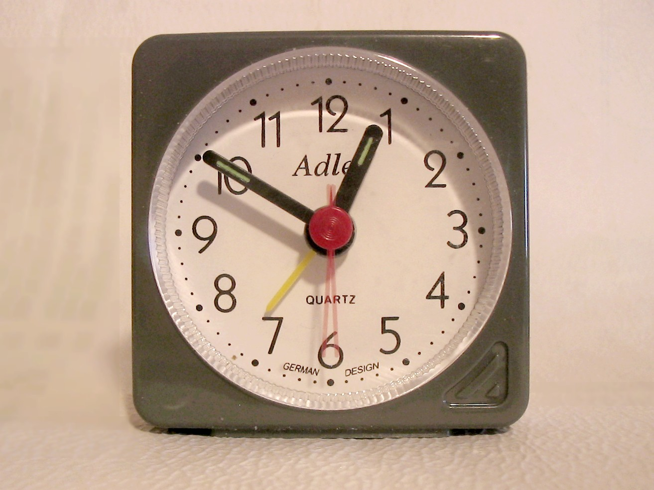 a modern alarm clock